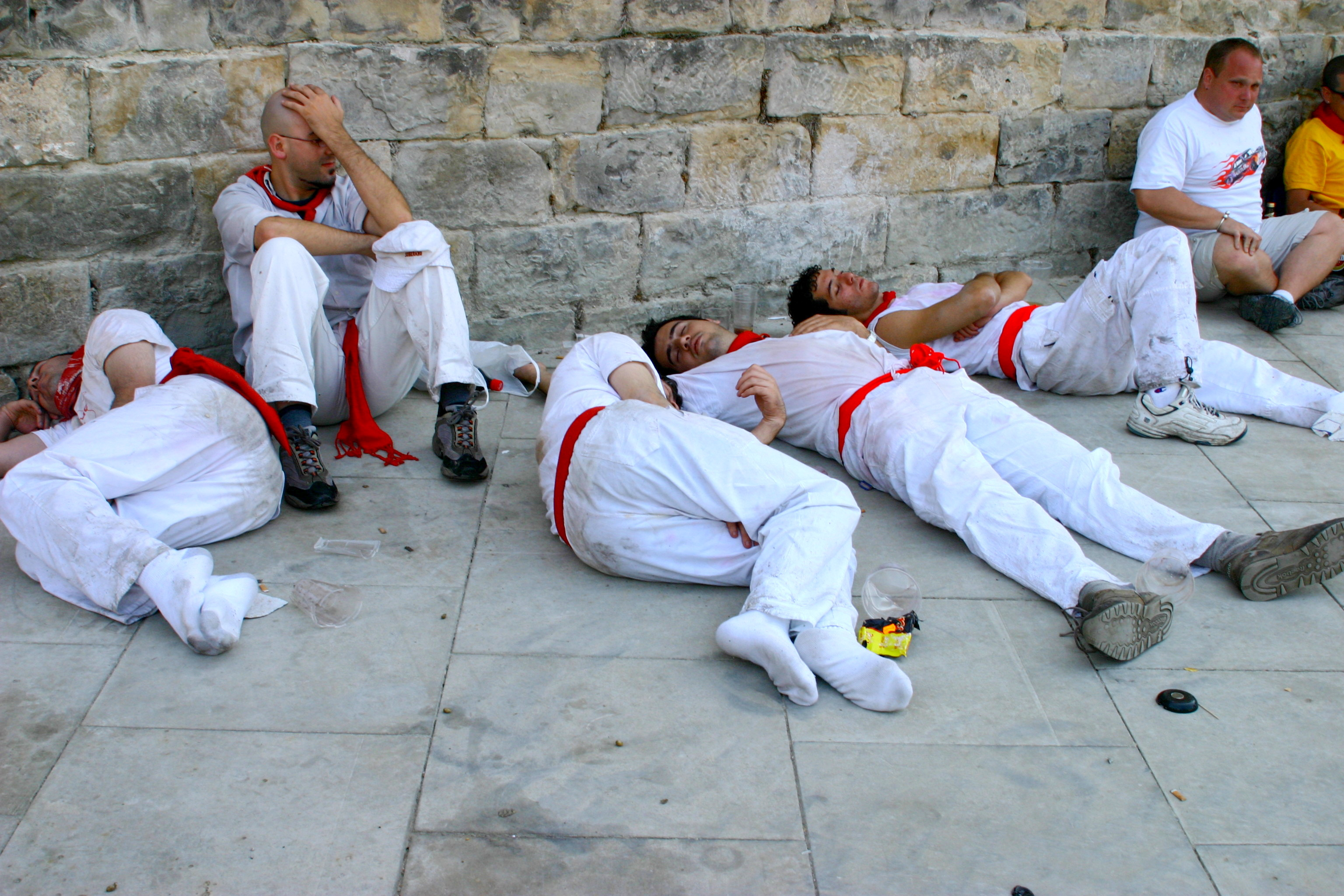 Sleeping after celebration at night.